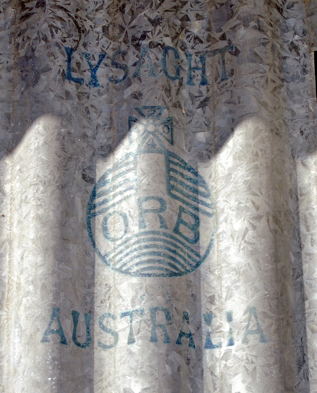 ORB brand stamp on corrugated iron made by Lysaght Australia.